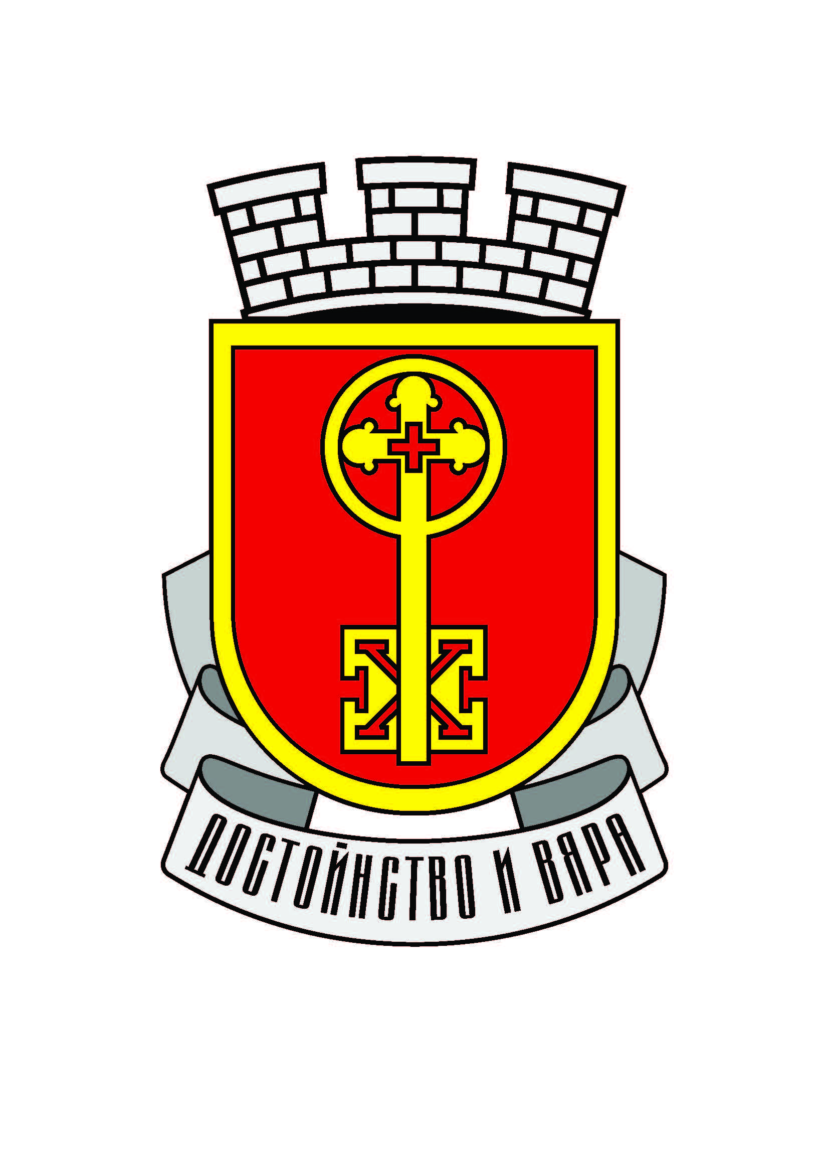 Coat of arm